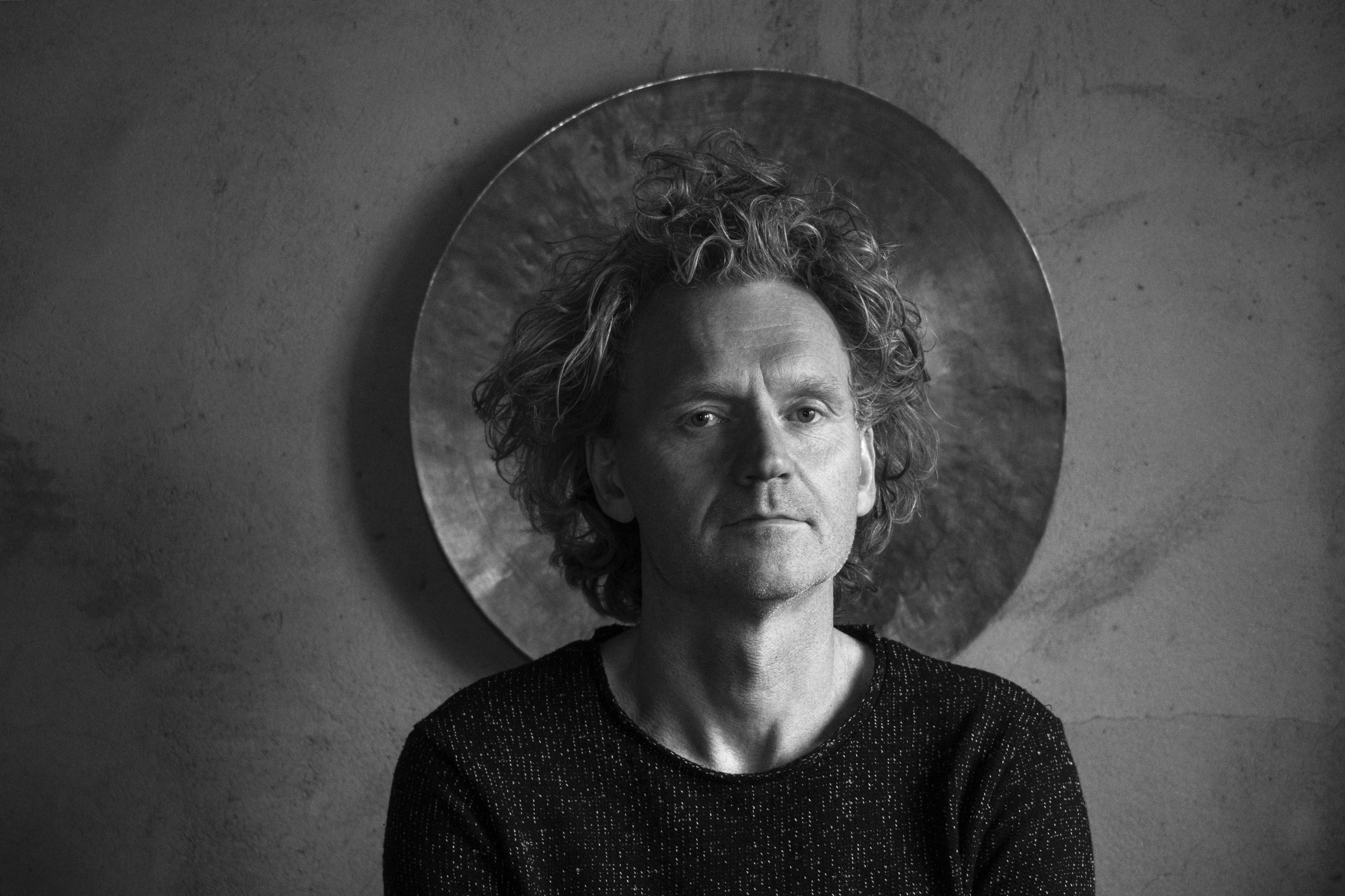 Terje Isungset